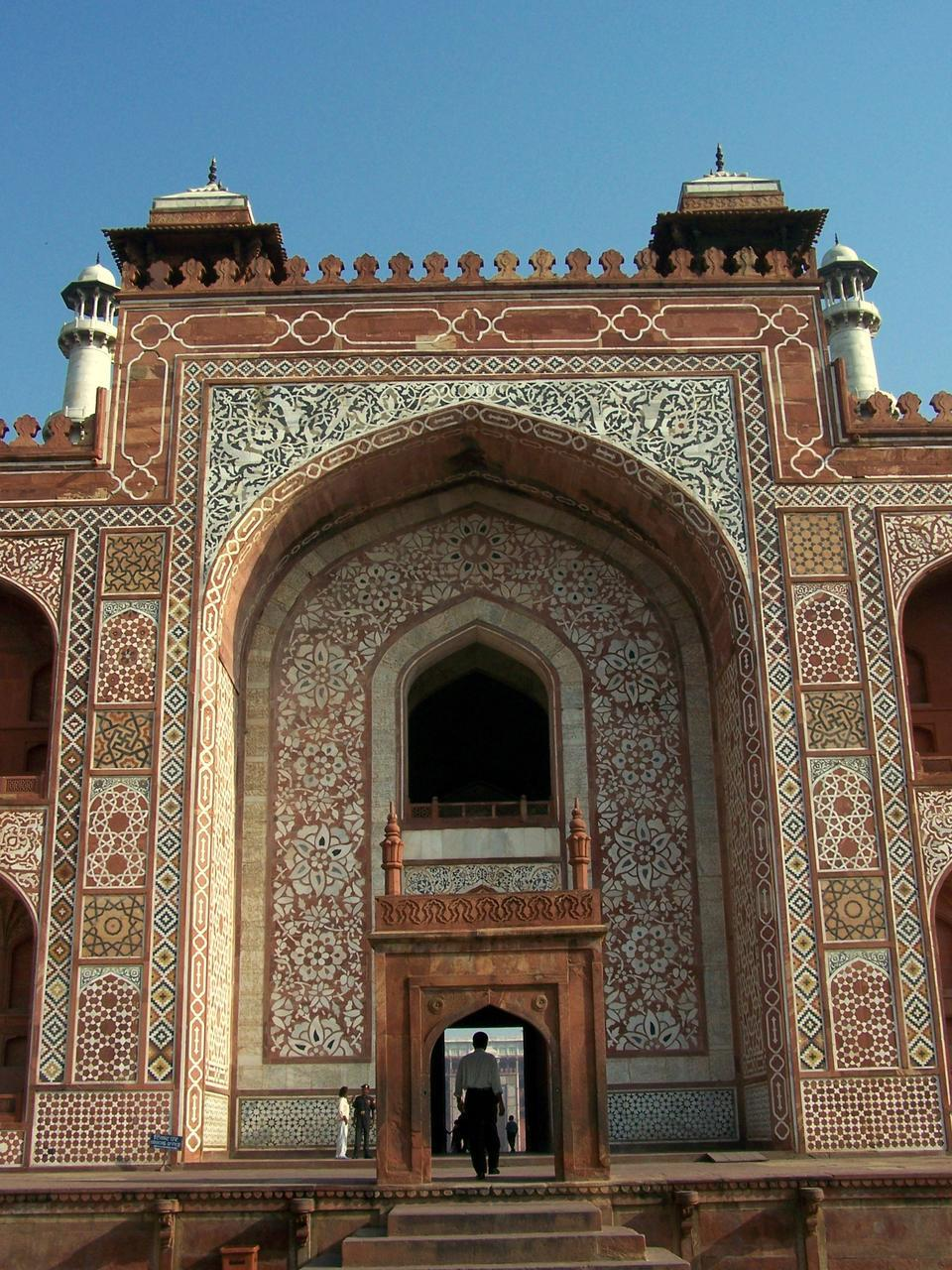 Gateway to the Tomb of Mughal Emperor Akbar at Sikandra (Uttar Pradesh, India)